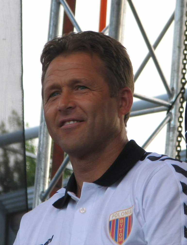 Yuriy Shatalov - former footballer and coach.